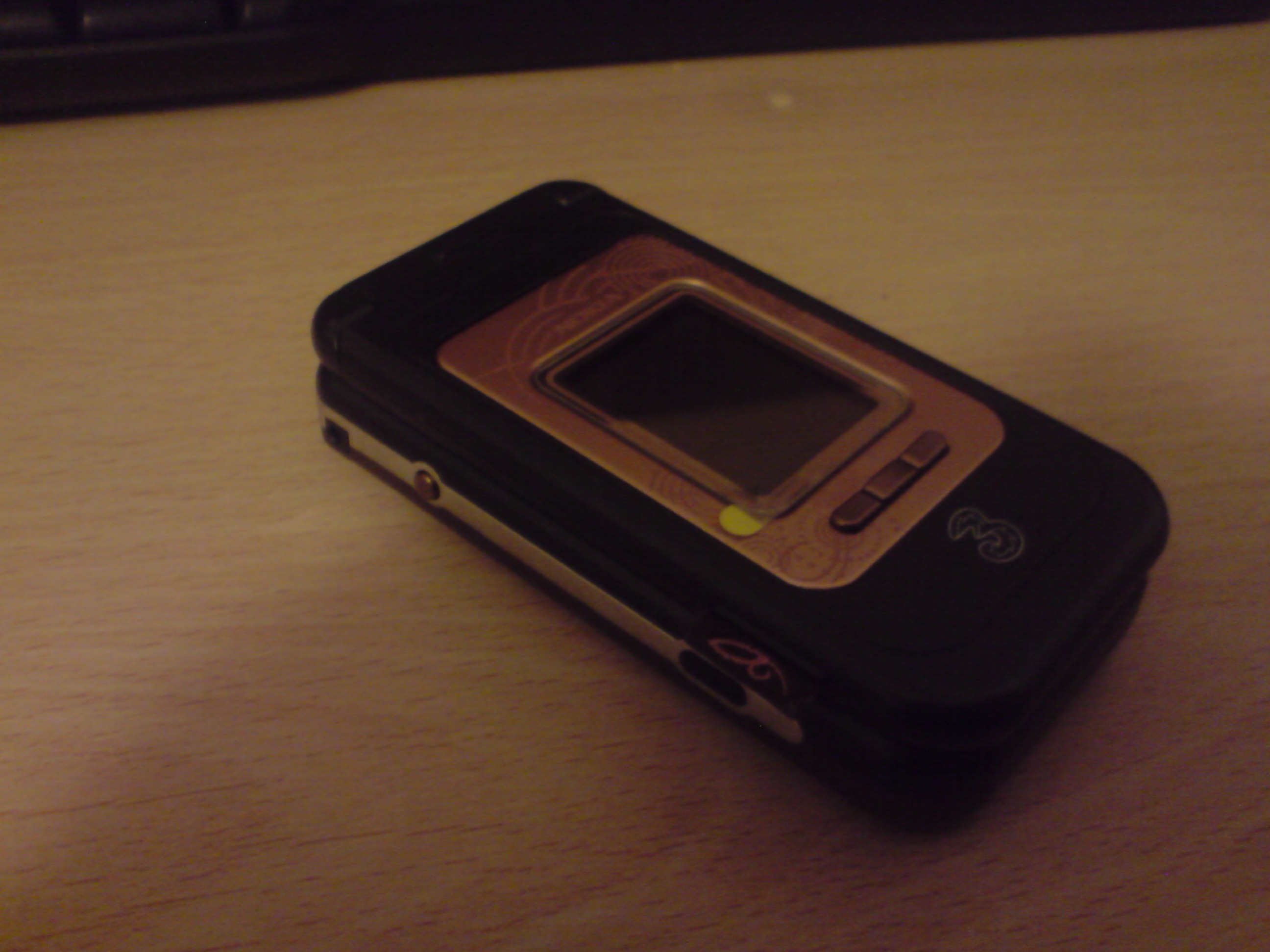 Picture of a Nokia 7390 w/ clamshell closed